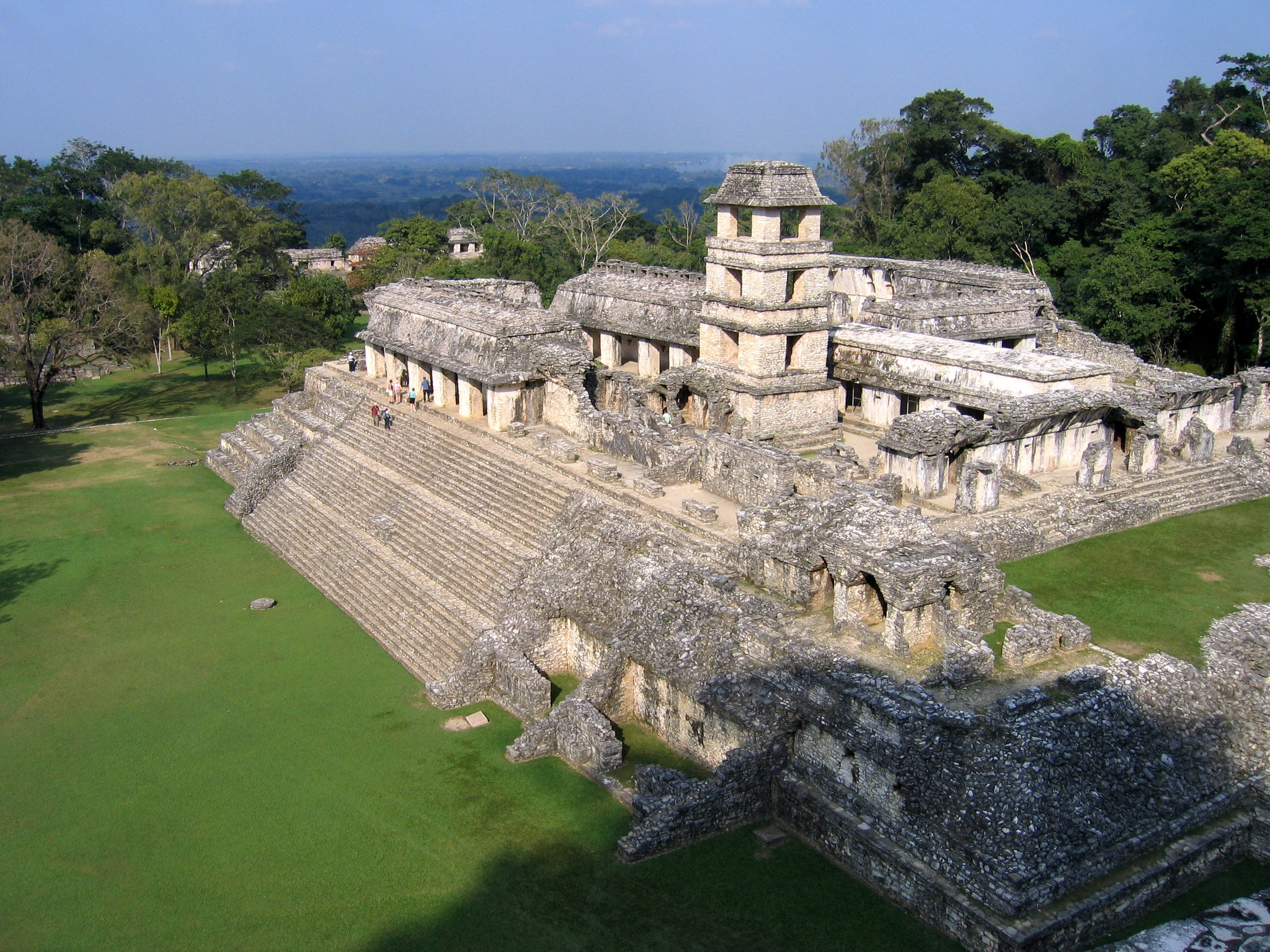 Image from the Mayan ruin site Palenque.